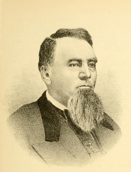 Portrait of Washington County NY treasurer James M. Northup, Ex-Assemblyman